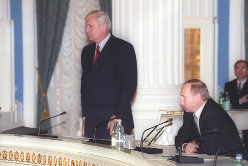 THE KREMLIN, MOSCOW. President Putin introducing Leonid Drachevsky, Presidential Plenipotentiary Envoy to the Siberian Federal District.